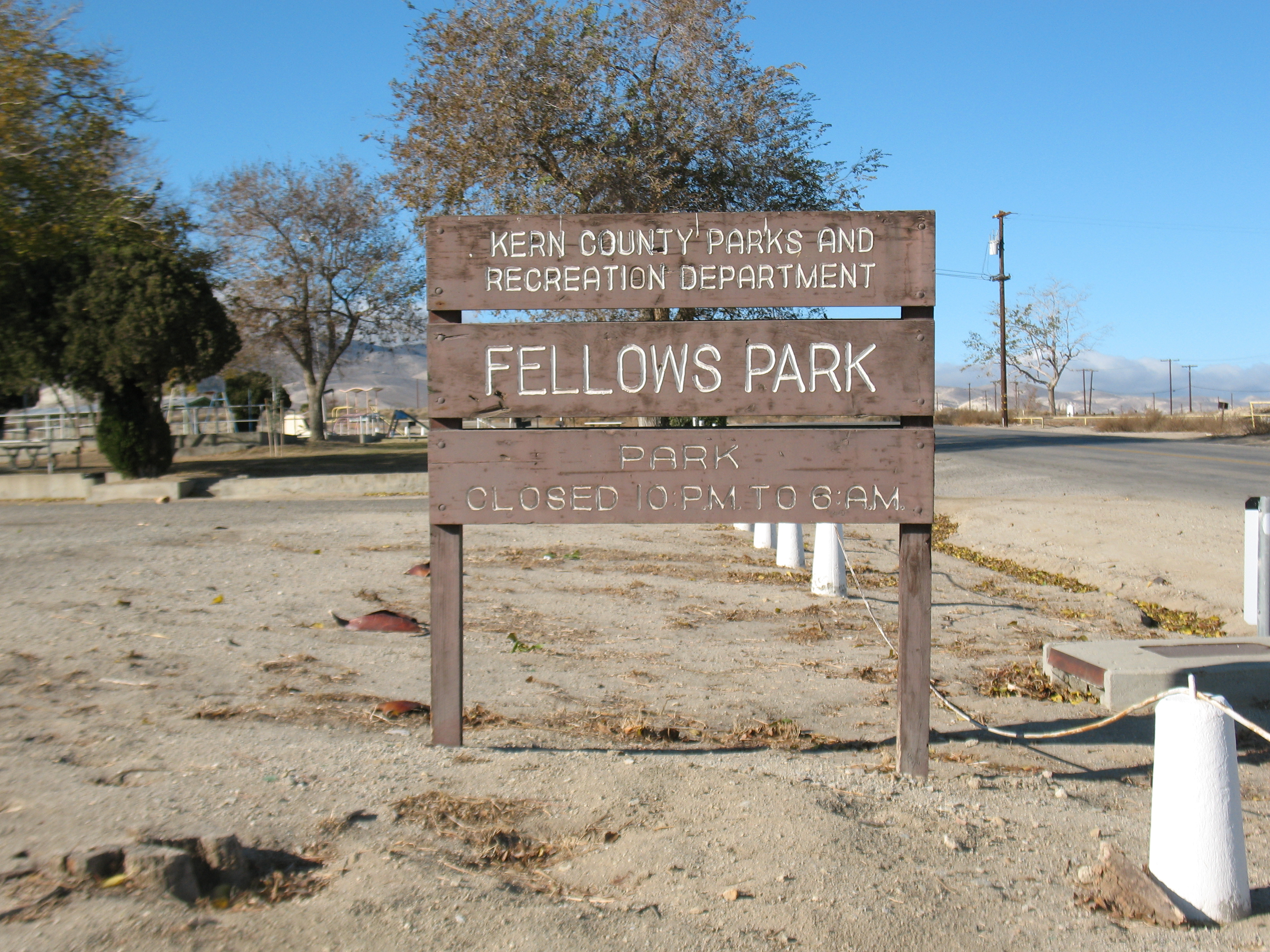 A park's sign for Fellows. Pretty much the best "Welcome" sign in town...